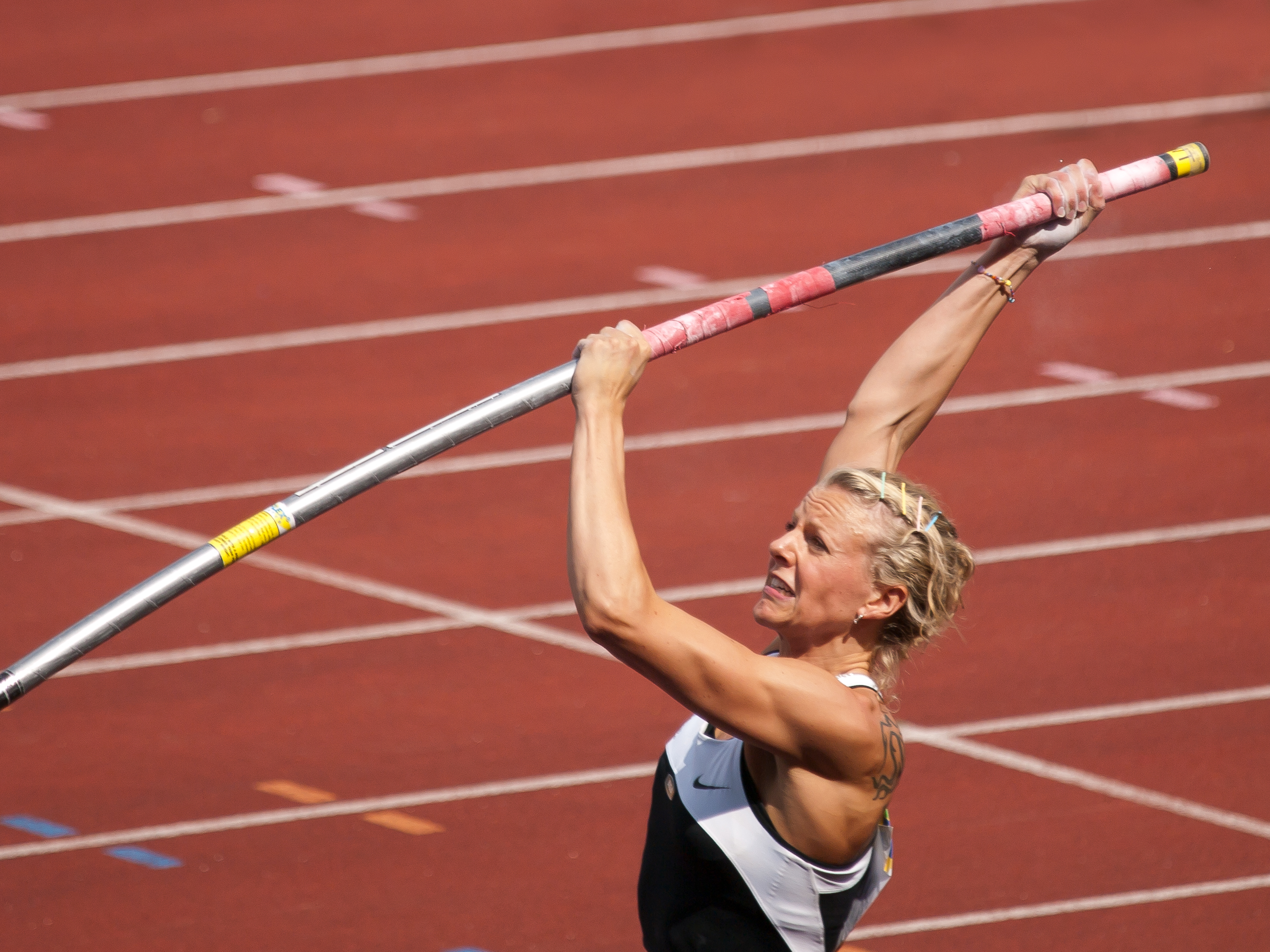 Henrietta Paxton in the womens' pole vault event at the Aviva 2010 UK Athletics Championships and European Trials at the Alexandra Stadium in Birmingham